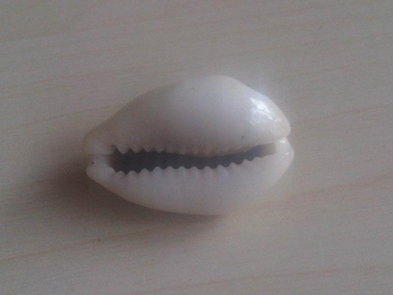 Monetaria moneta formely known as Cypraea moneta seen from below in a private collection in London, England.